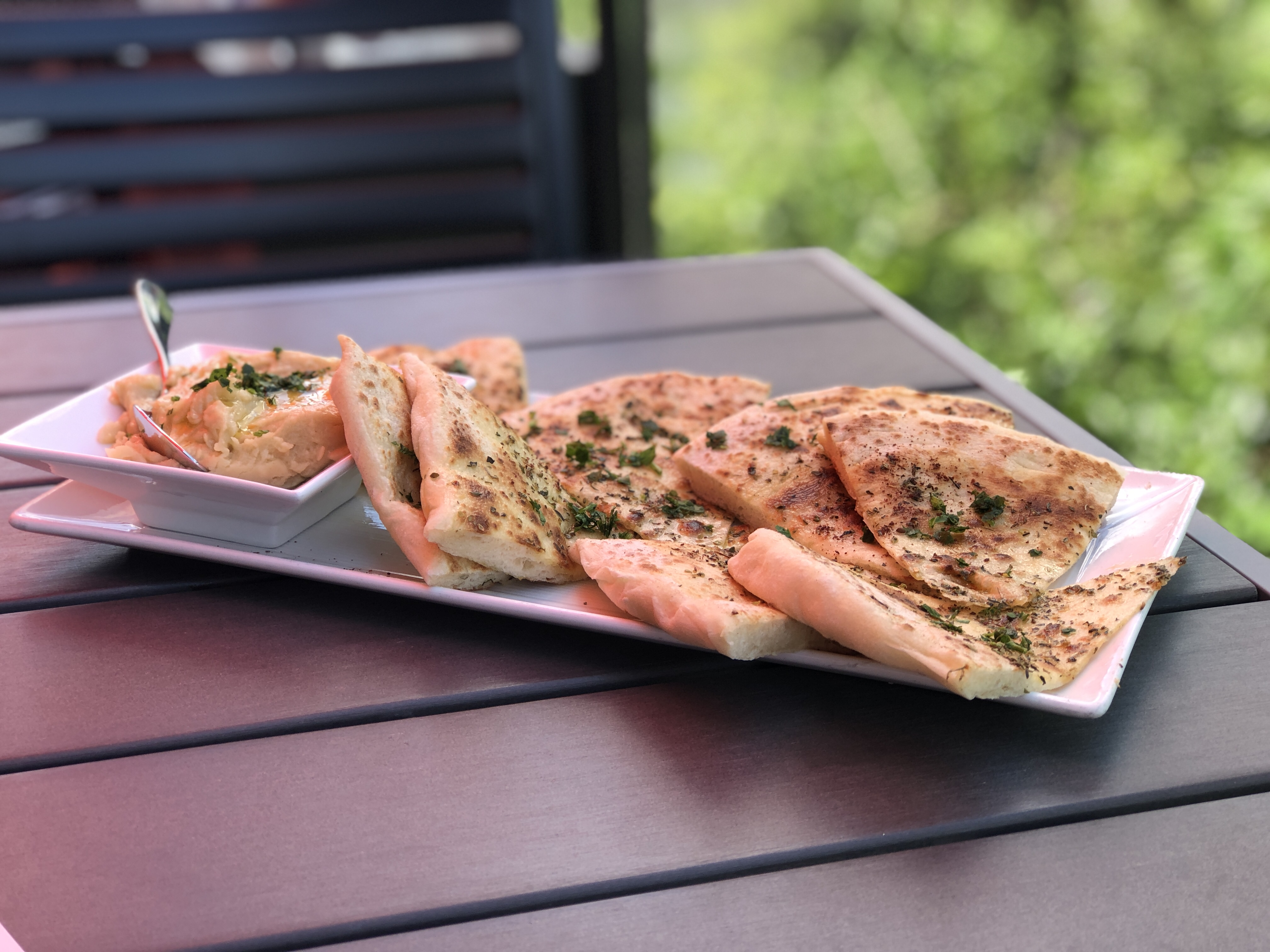 Laffa with skordalia at The Shore Room in Reno, Nevada